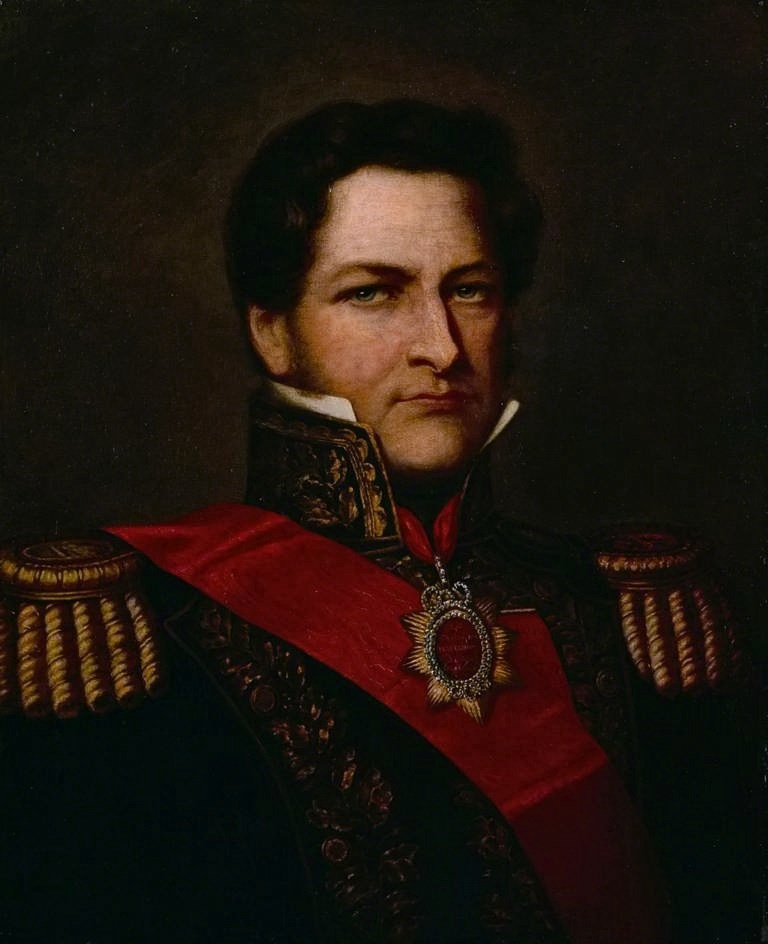 Posthumous portrait of Juan Manuel de Rosas